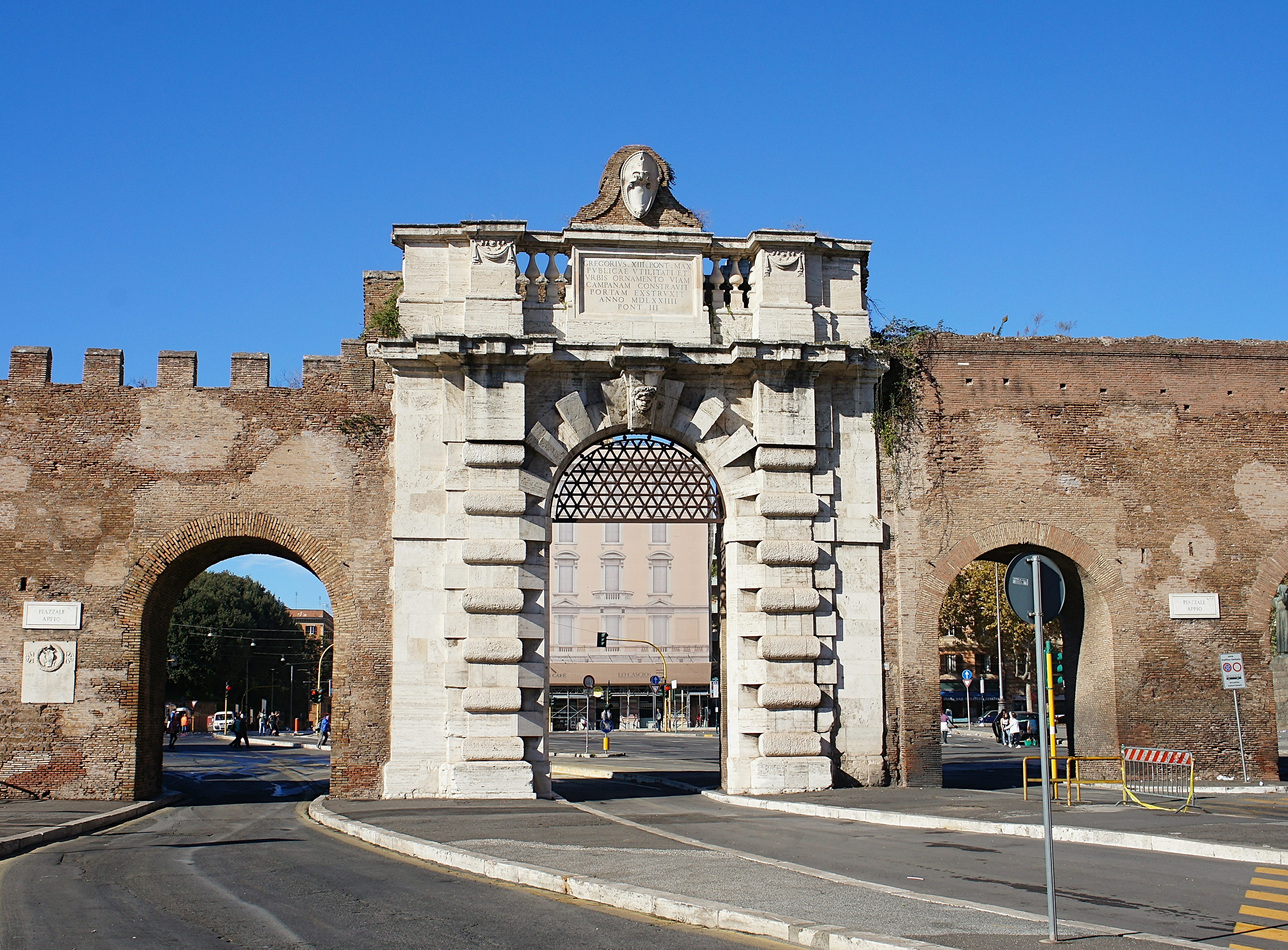 The Gate of Saint John in the Aurelian Wall in Rome (Lazio, Italy).